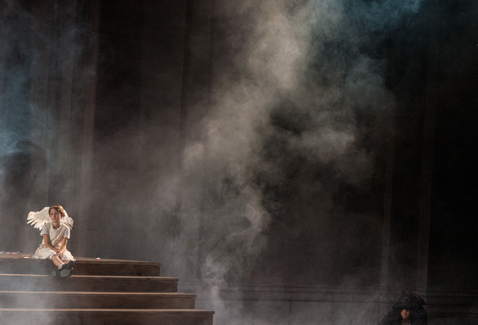 Elisabeth Reichberger - angel at Jedermann, staged by Brian Mertes and Julian Crouch, Salzburg Festival 2014